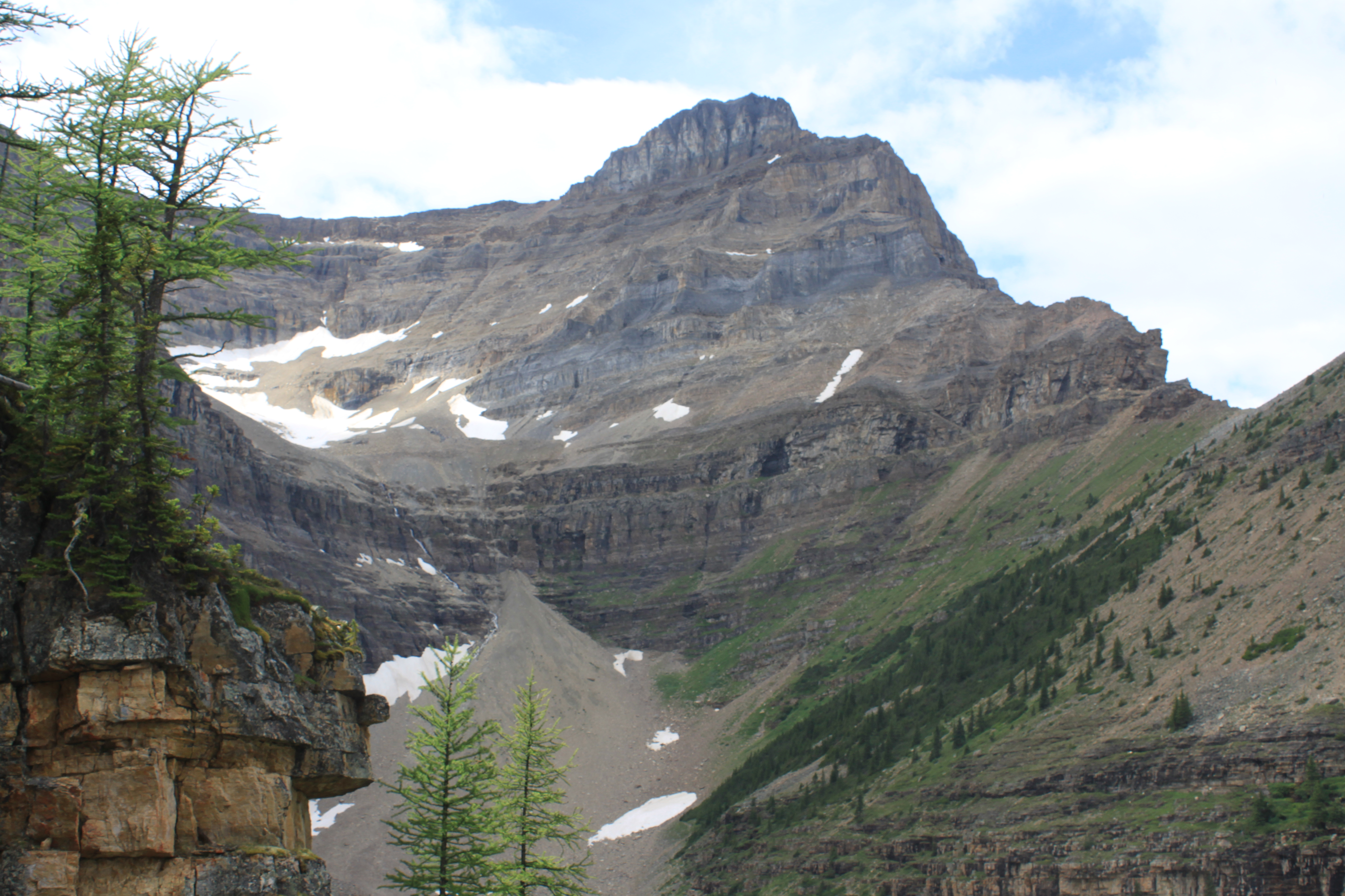 Mount Niblock from the hiking trail above Lake Agnes, Banff National Park, Alberta, Canada